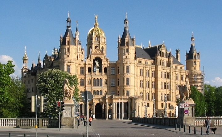 front aspect of Schwerin Castle, Germany